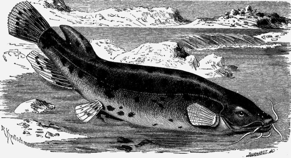 Electric catfish